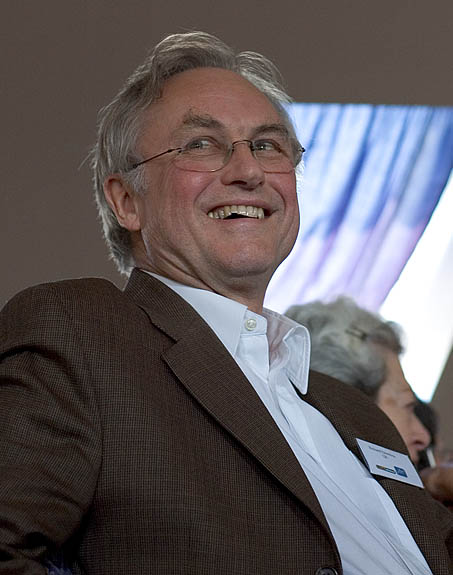 Richard Dawkins in a lecture in Reykjavík